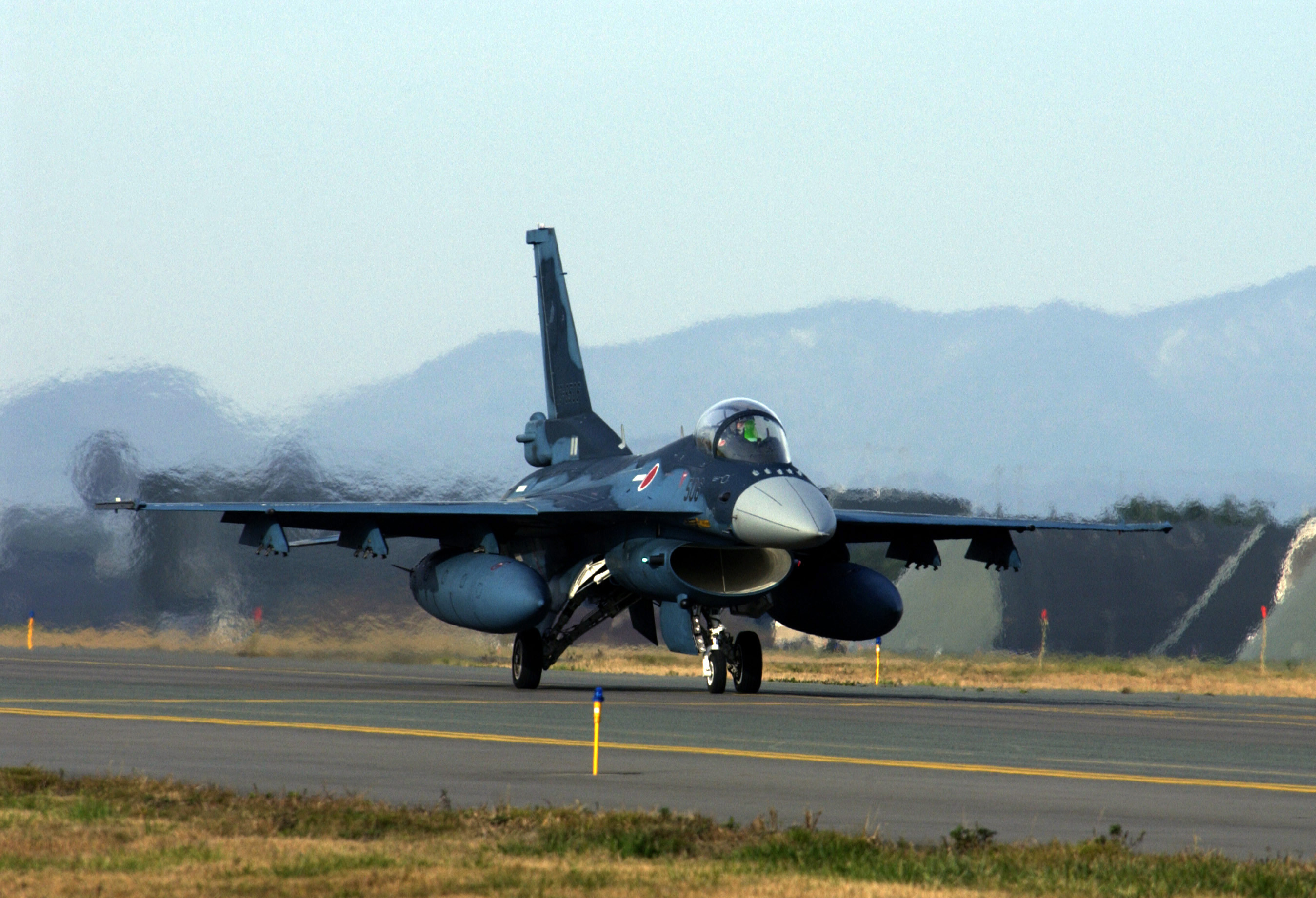 F-2A (506) of 3 Sqn taxis down the runway at Misawa Air Base during exercise Keen Sword 2005, on Nov. 18, 2004. Keen Sword is a joint, bilateral defense exercise where members of U.S. Forces in Japan and the Japanese Self -Defense Forces increase their defensive readiness through training in air, ground and sea operations. (U.S. Air Force photo by Staff Sgt. Cherie A. Thurlby) Nikon D1X